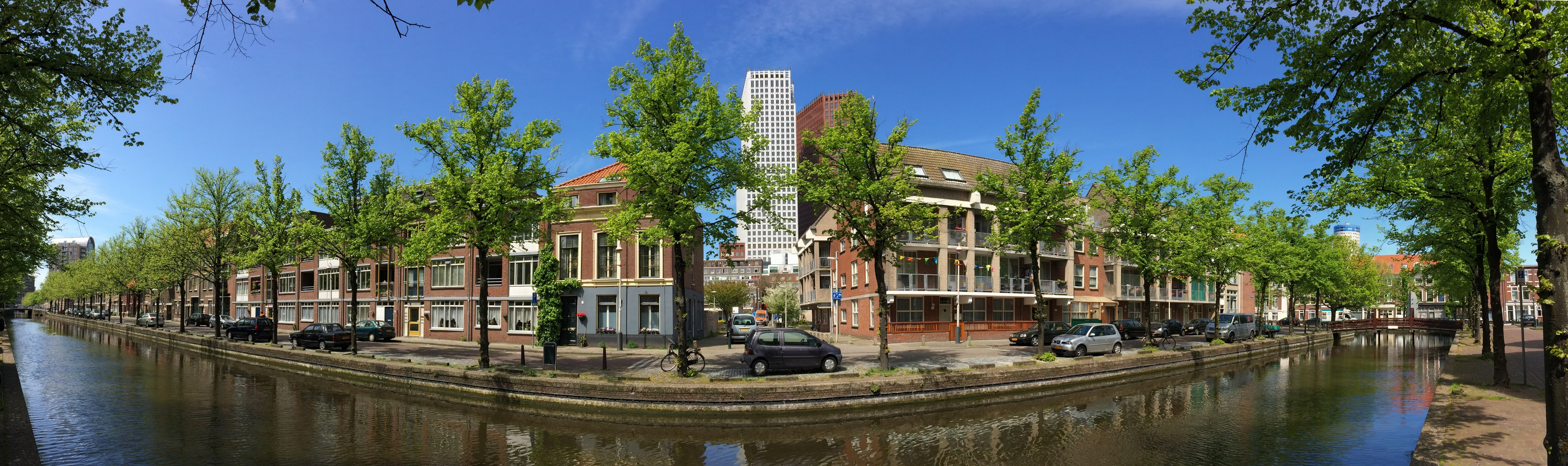 This street in the centre of The Hague (Netherlands) is called Uilebomen.